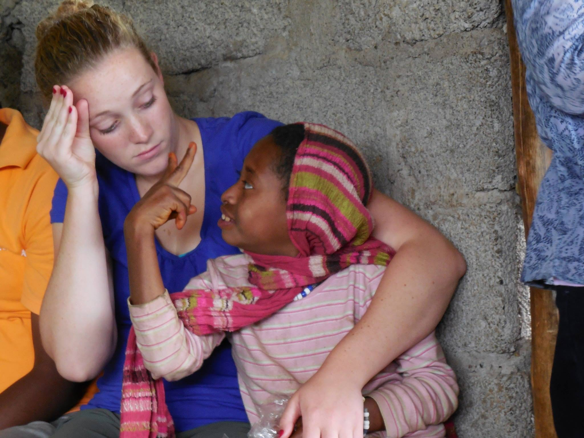 Mary Grace Hamme pictured signing with a young deaf Ethiopian girl